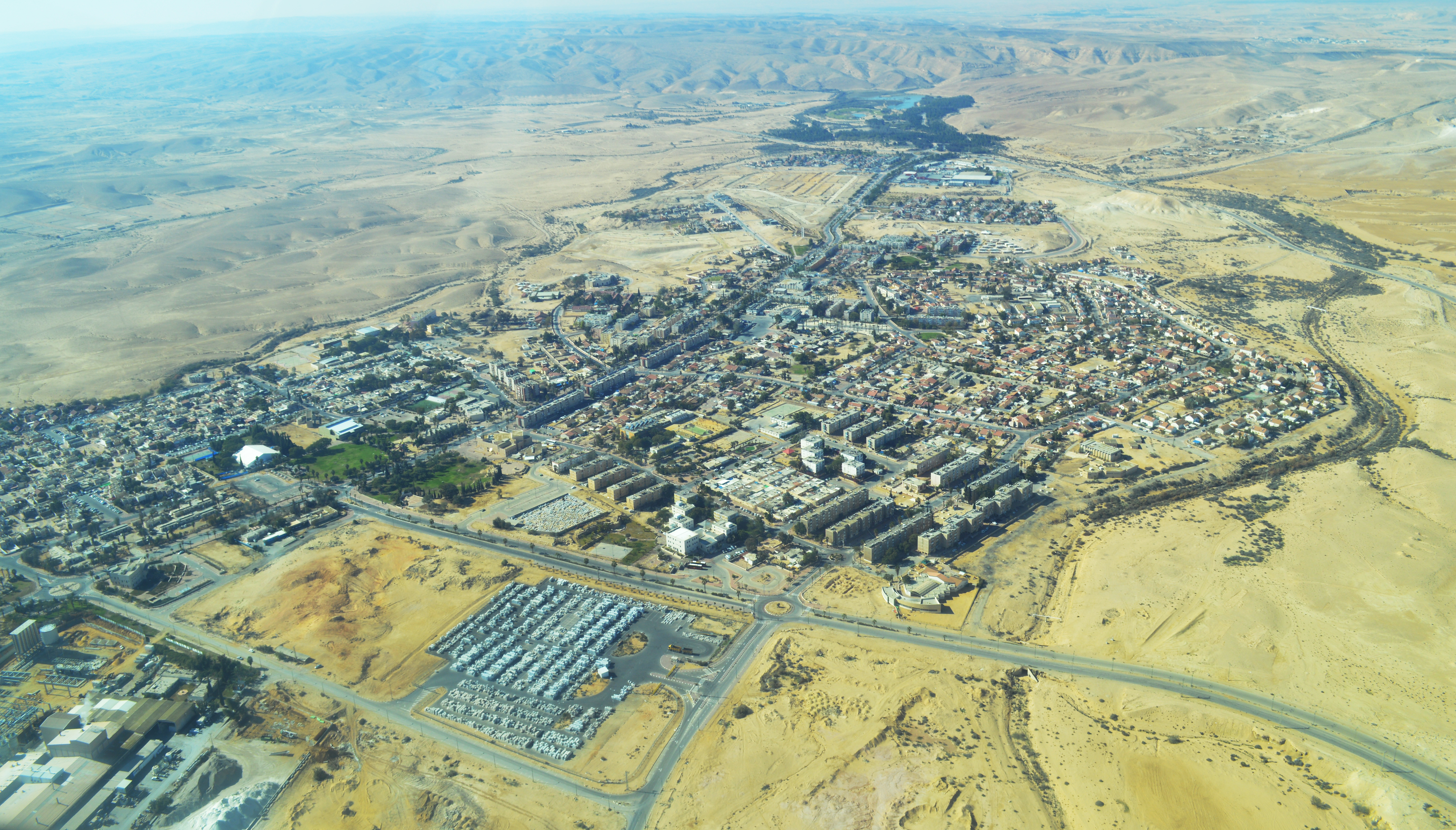 Yeruham Aerial View